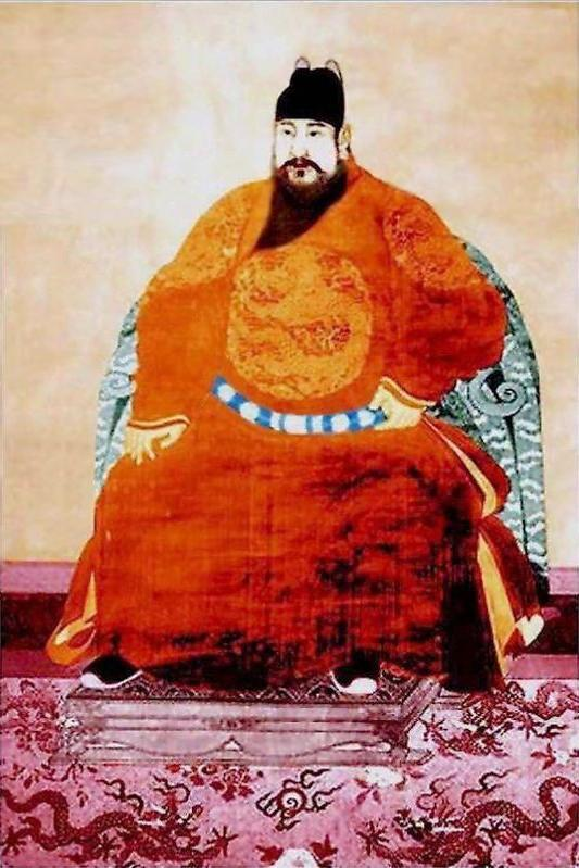 Emperor Hungxi